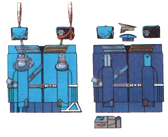 Uniform of Cossak Lifeguard Atamansky Regiment. 1910